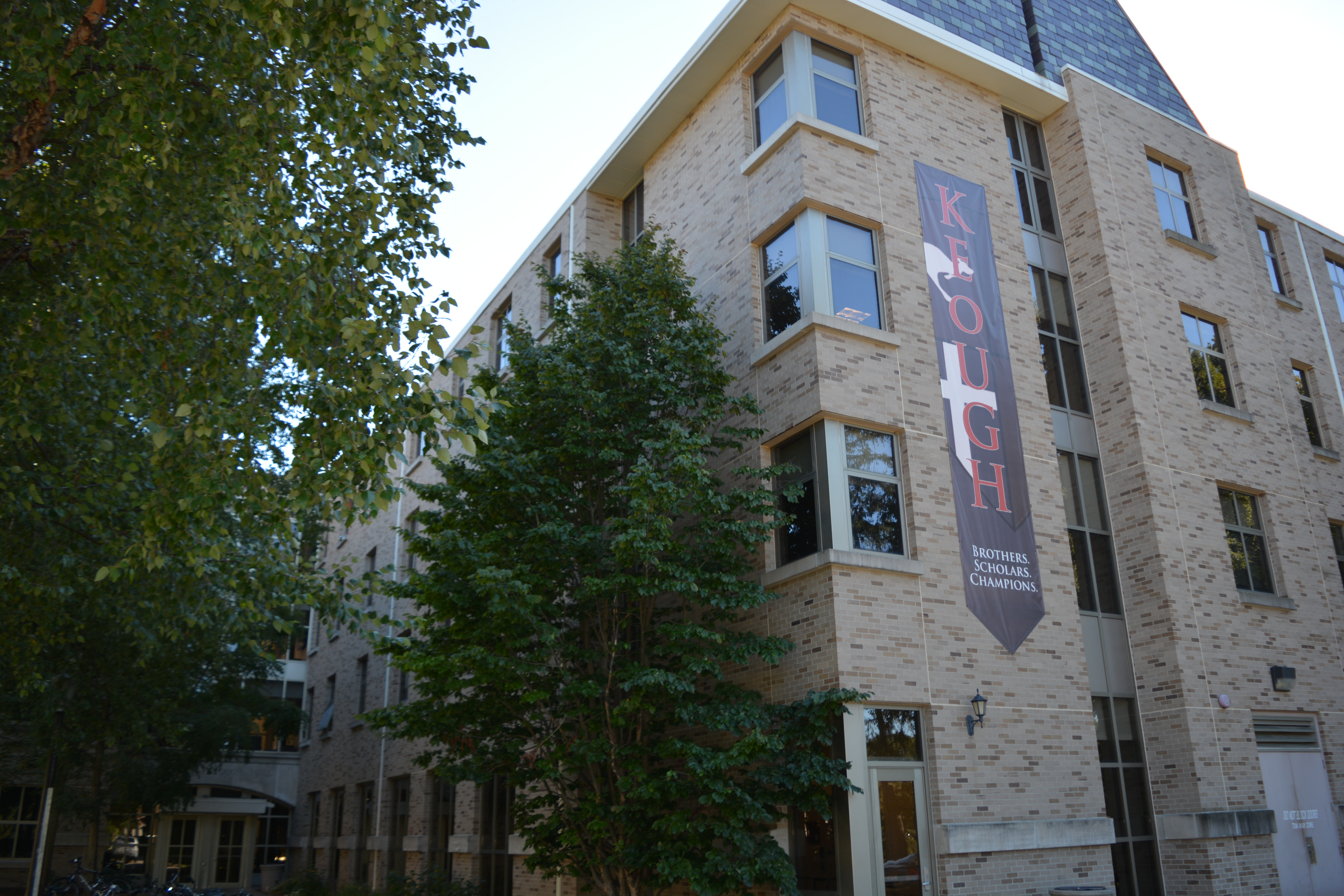 University of Notre Dame